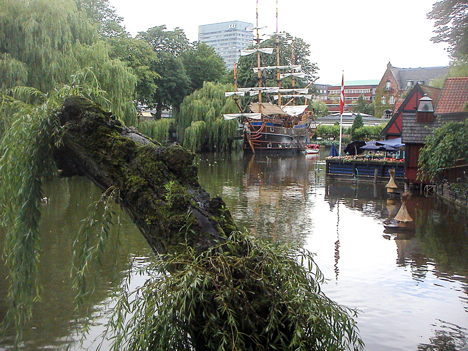 Tivoli Gardens in Copenhagen